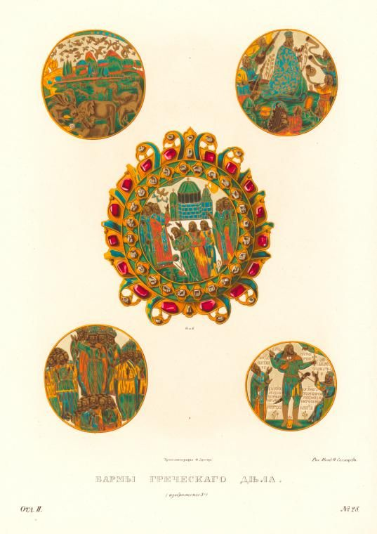 Shoulder mantle